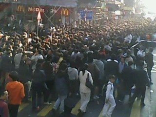 Hong Kong Computer Festival 2008, the crowd stood at the Fok Wah Street entrance.